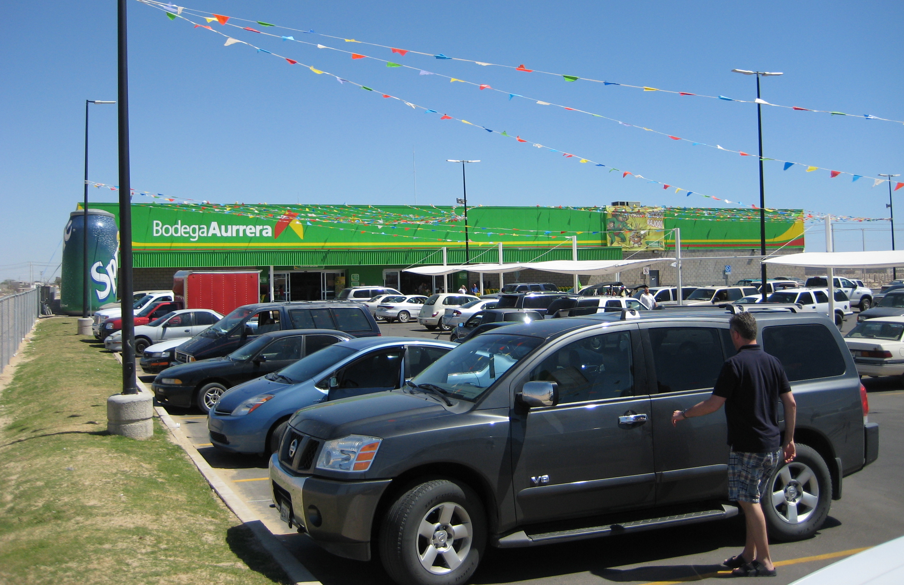 Bodega Aurrera in Puerto Peñasco, Mexico